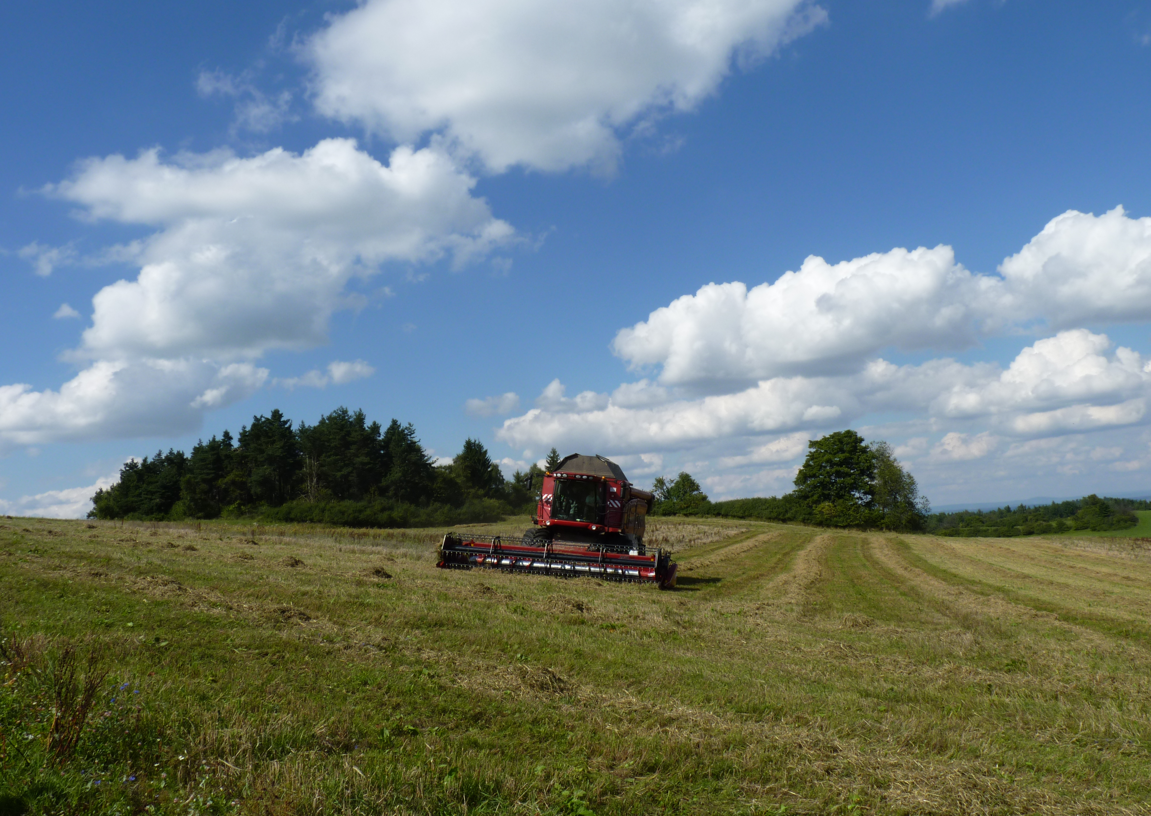 Combine harvester Case IH 8010 during skiving a field. Hoslovice, Strakonice District, South Bohemian Region, Czech Republic